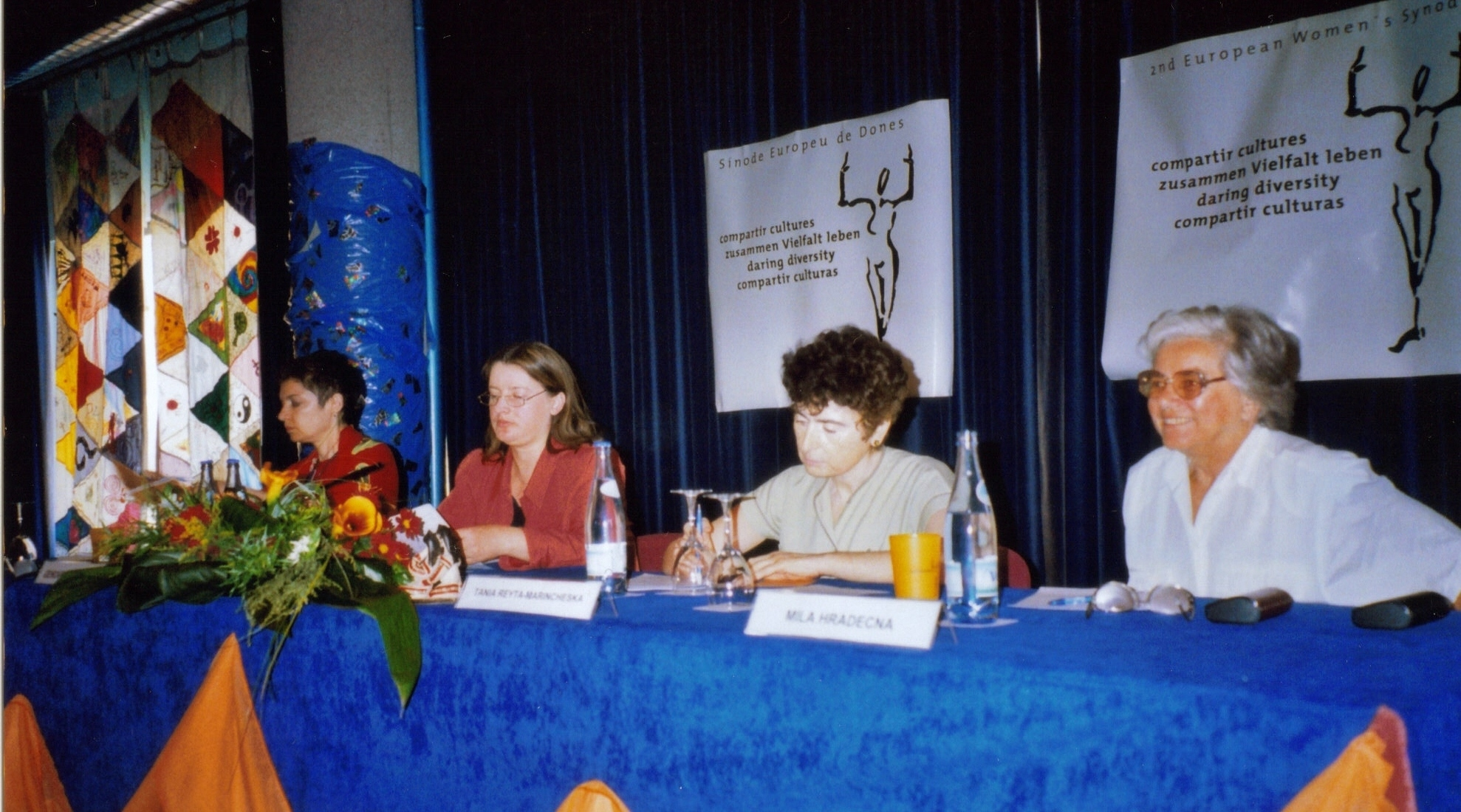 2nd European Women's Synod